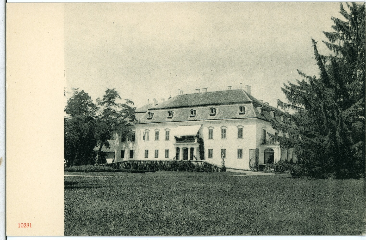 This postcard is from publisher Brück & Sohn in Meißen ( This postcard has a unique number 10281 and is available in a higher resolution at the publisher. This images was uploaded in a cooperation project between Wikipedians and the publisher.